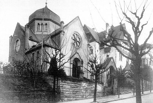 Synagogue of Weinheim in Germany, built in 1906, destroyed by the nazis in 1938 during Kristall Nacht